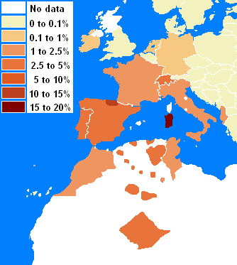 Derived from svg map Image:BlankMap-World3.svg: Recolored to show areas of the world with HLA B18-DR3 haplotype, see A30-Cw5-B18-DR3-DQ2 (HLA Haplotype)